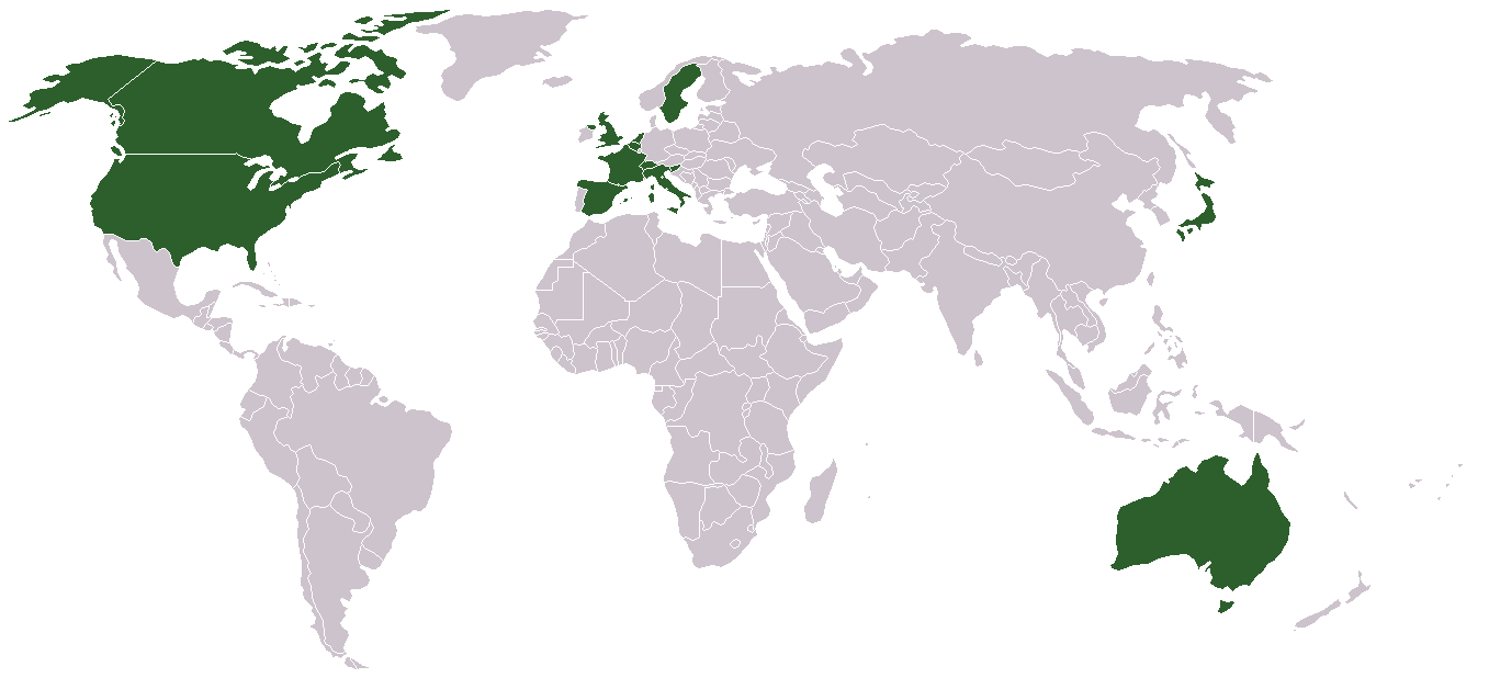 Group of Twelve countries highlighted in green.